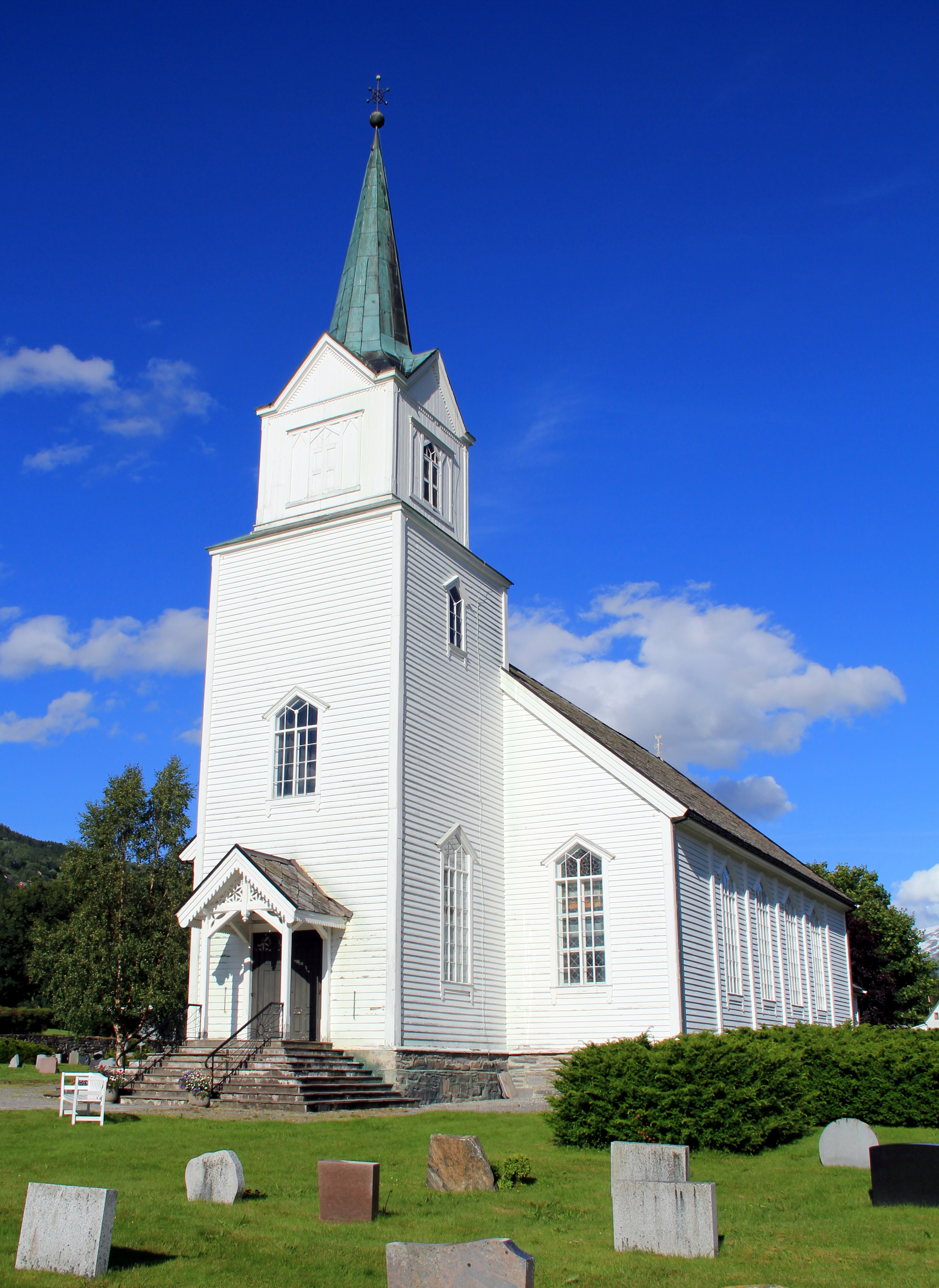 Breim kirke